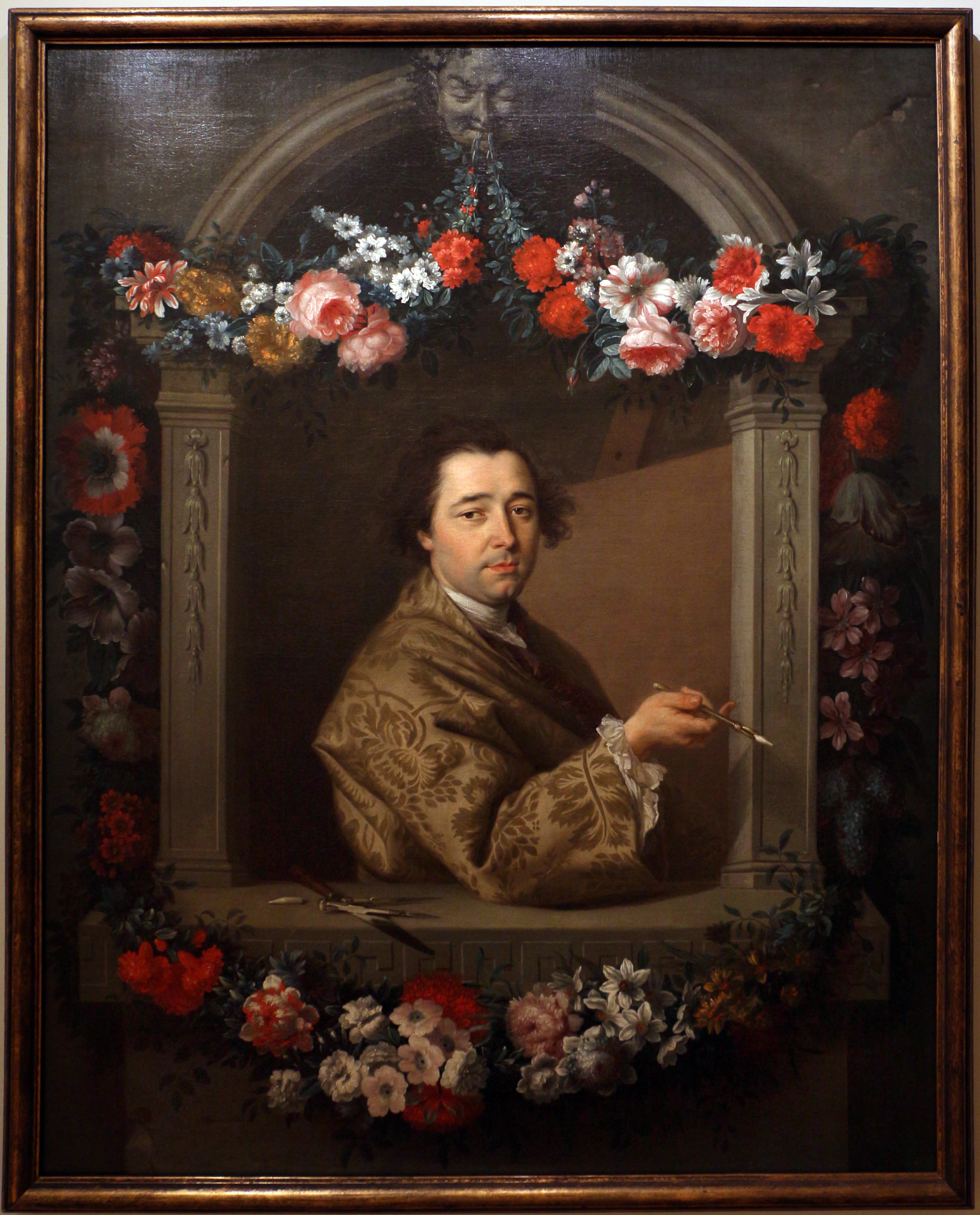 Paintings in the Milwaukee Art Museum